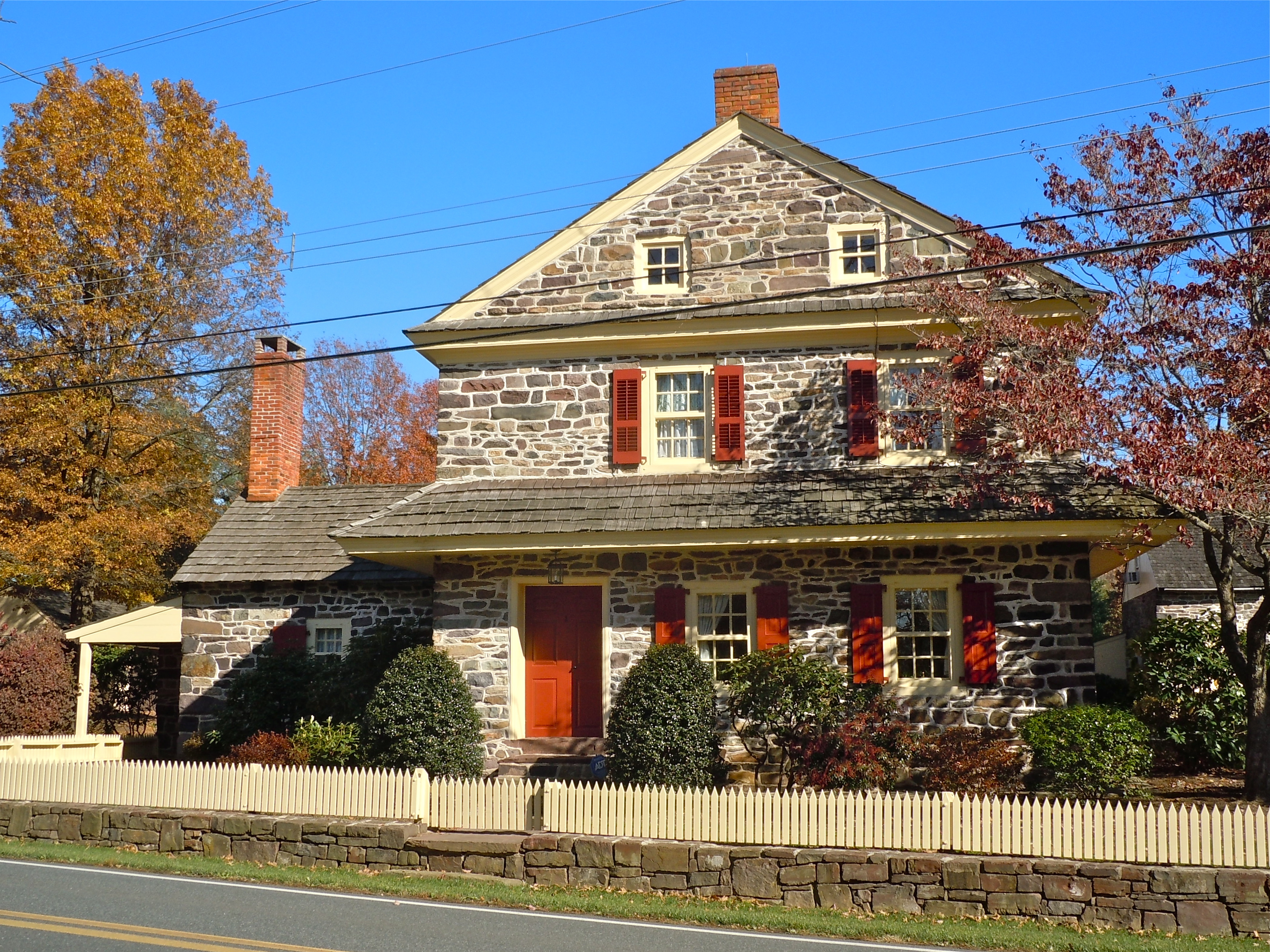 Andreas Rieth Homestead on the NRHP since September 19, 1973. Southeast of Pennsburg on Geryville Pike, Pennsburg, Montgomery County, Pennsylvania.